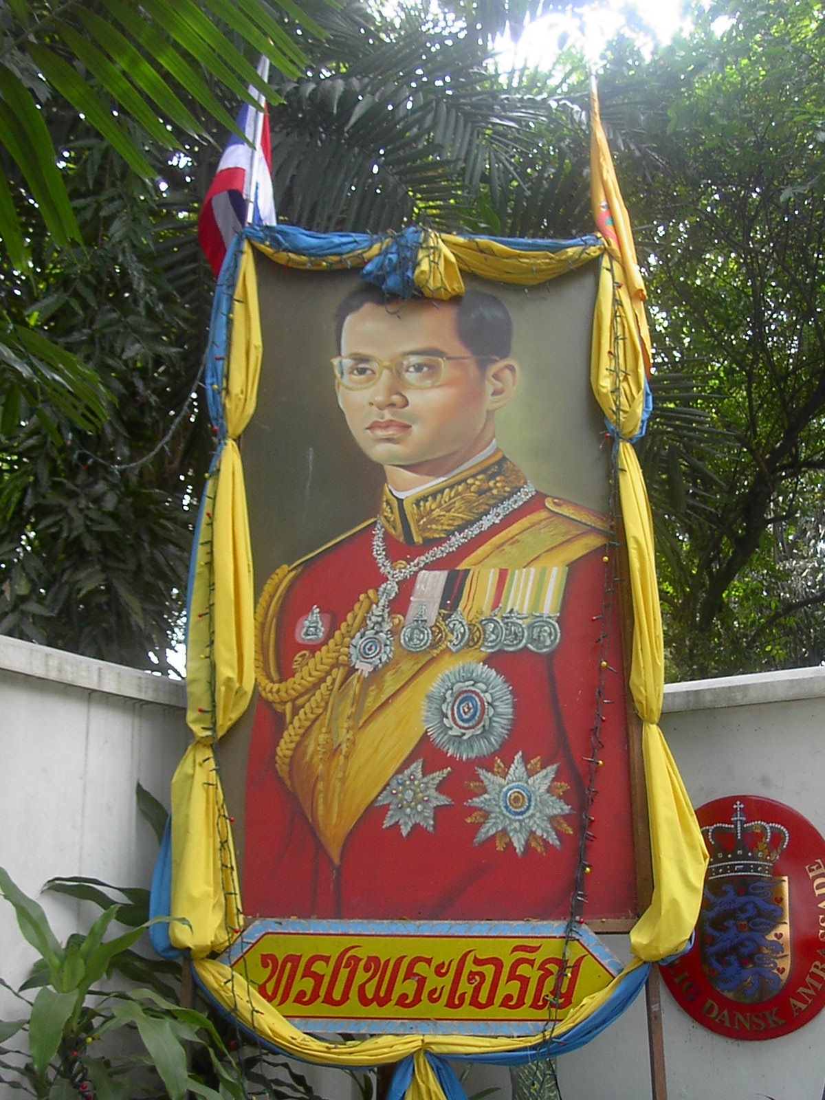 Bhumibol Adulyadej, King of Thailand